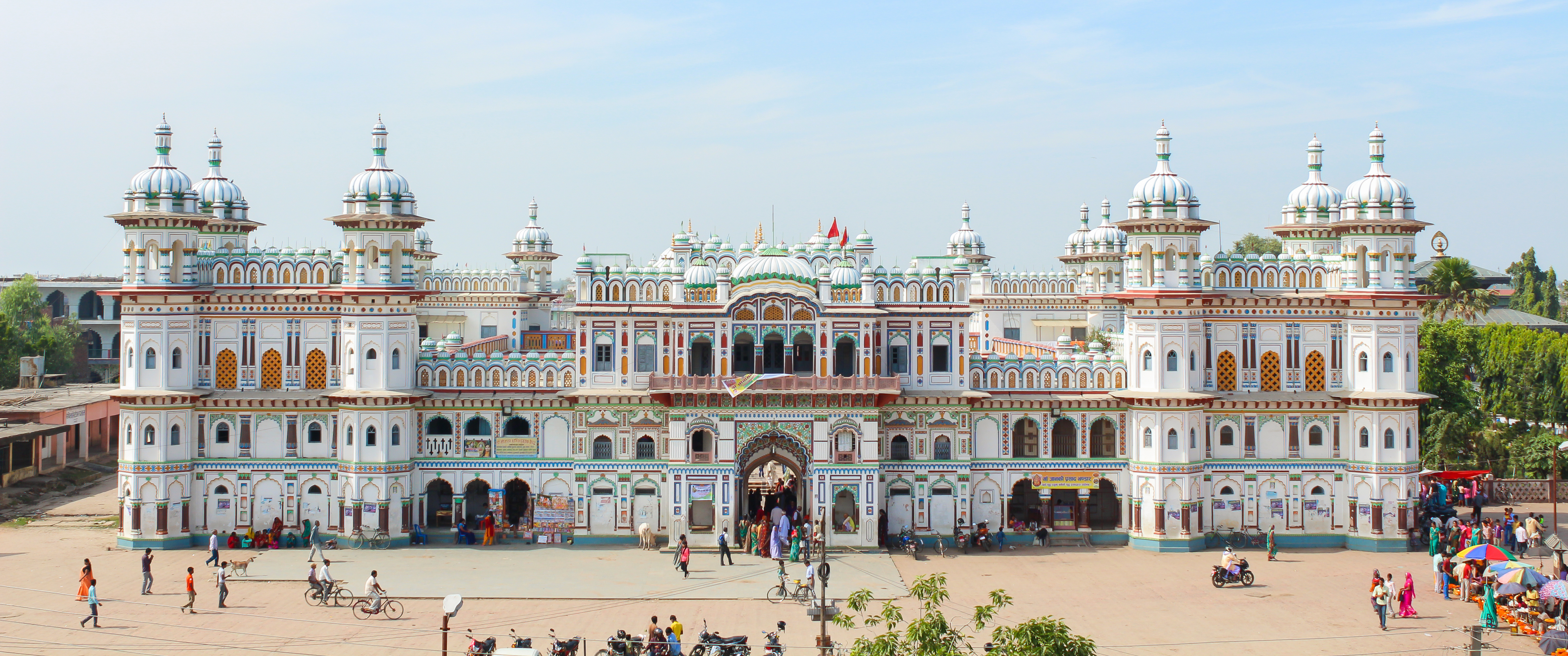 Janki Mandir (temple) of Janakpur, Nepal (full frontal view). This photograph was captured by Abhishek Dutta ( I was born in Janakpur and love to photograph this historical temple whenever I visit Janakpur.